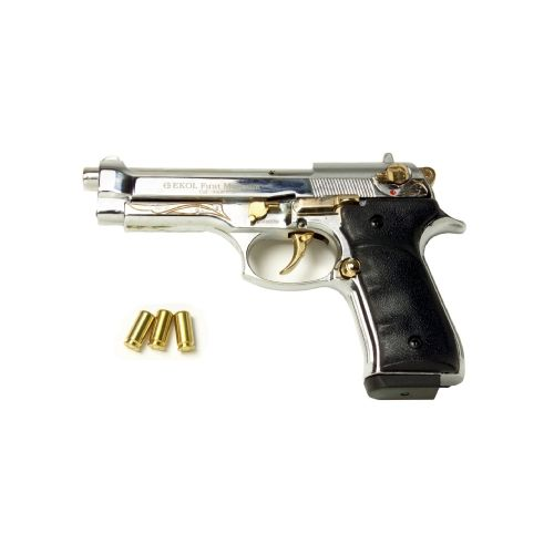 Firat Magnum Nickel-Gold